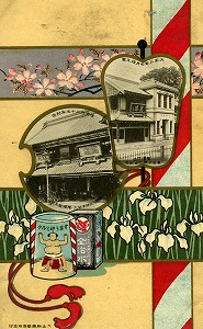 『尾澤豊太郎商店』。(Toyotarō Ozawa's Pharmacy has removed to other place in 1918. Therefore, it is assumed that this postcard was made before 1918.)